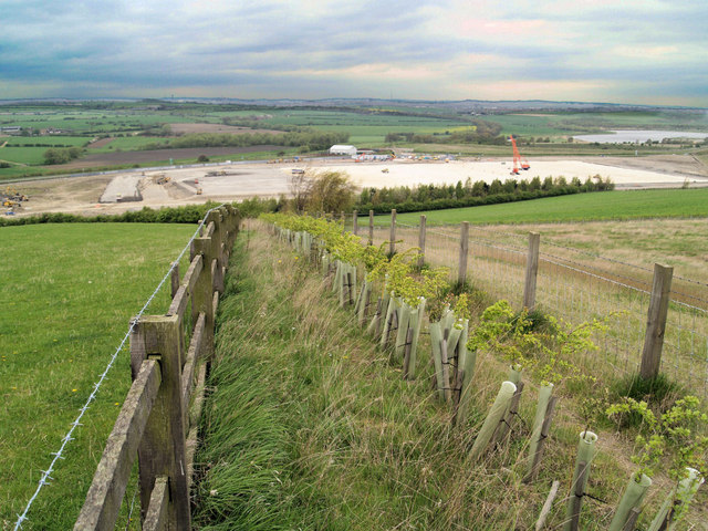 Site preparation for new warehouse. Site preparation for new warehouse on former Houghton Main Colliery site. The photo is taken from the reclaimed spoil heap.